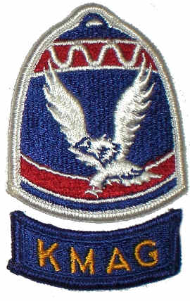 Korean Military Advisory Group (KMAG) Patch